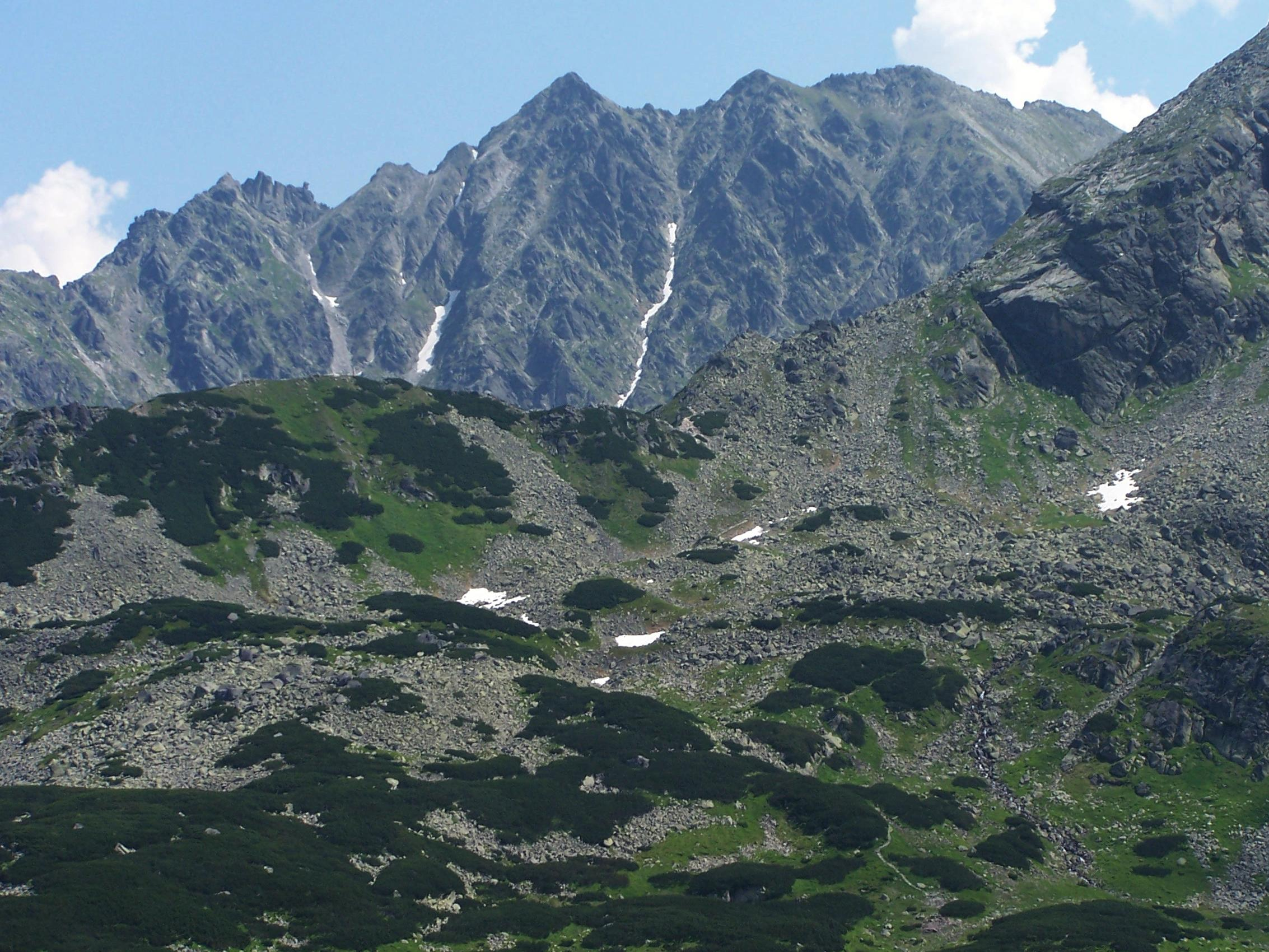 Granaty (Tatra Mountains)